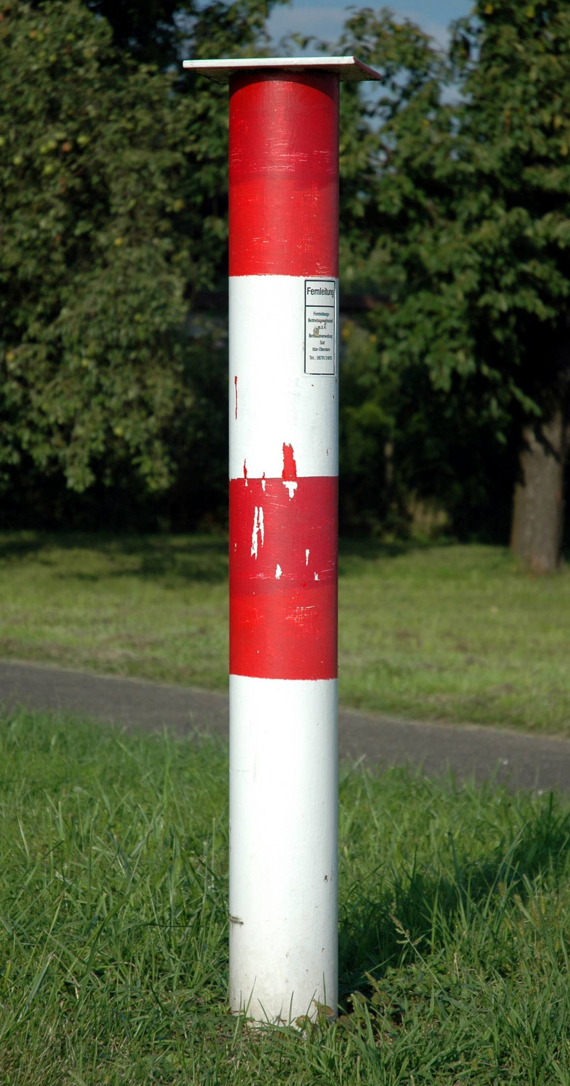 mark of a CEPS pipeline near Untergruppenbach.